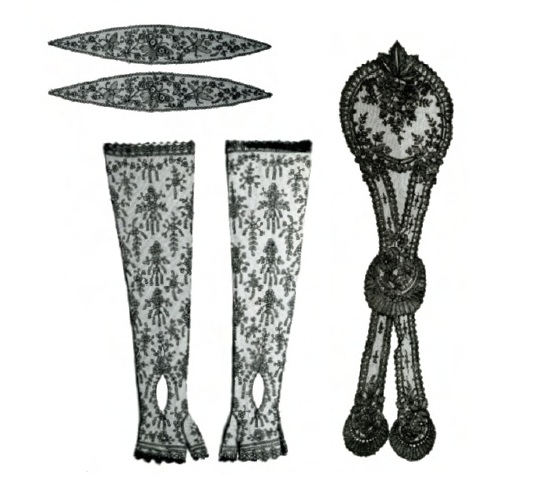 Anonymous, Stocking insets, mittens and cravat in silk Chantilly bobbin lace, 1850-1910. MoMu Collection S67/85AB, S1670AB, S67/78. MoMu - Fashion Museum Province of Antwerp, Photo by Hugo Maertens, Bruges.